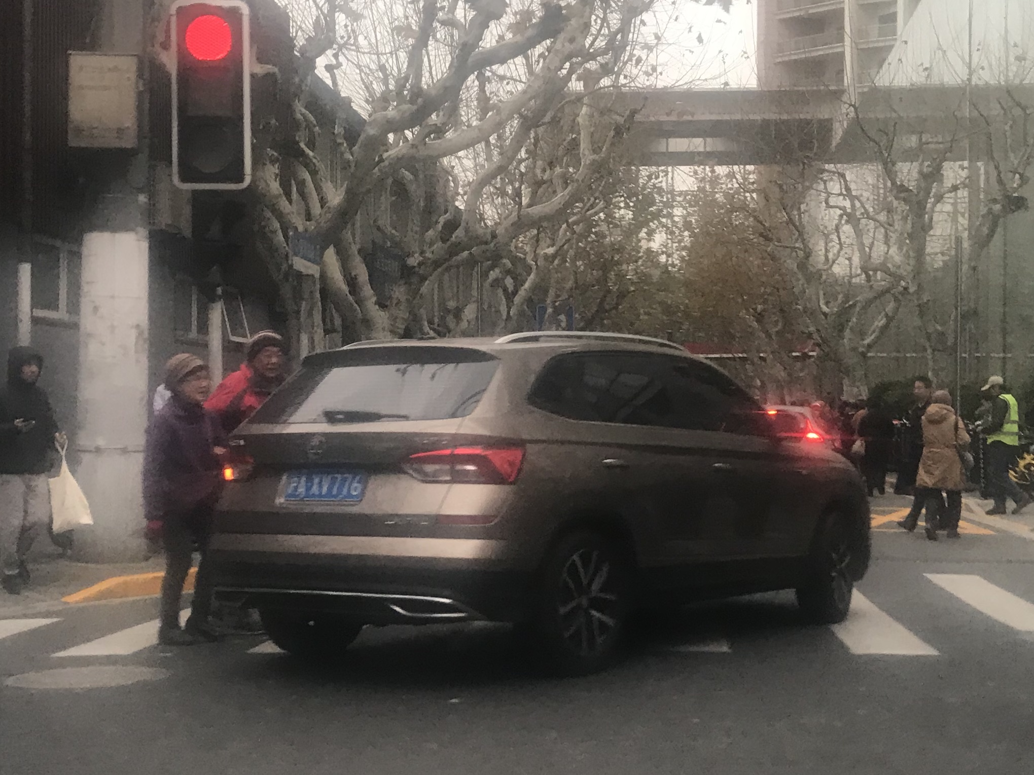 Skoda Kamiq rear